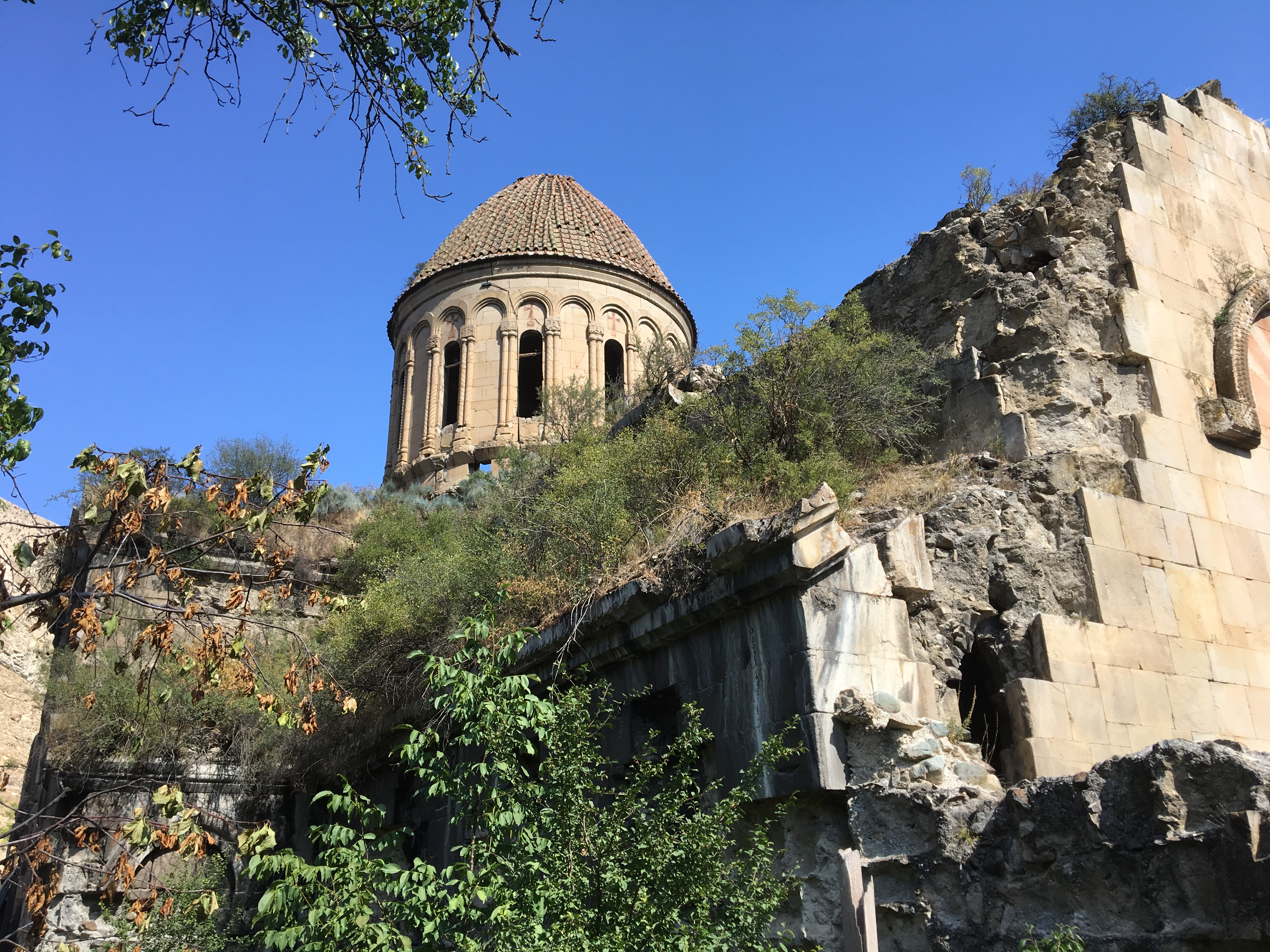 A monastery from Erzurum in Turkey